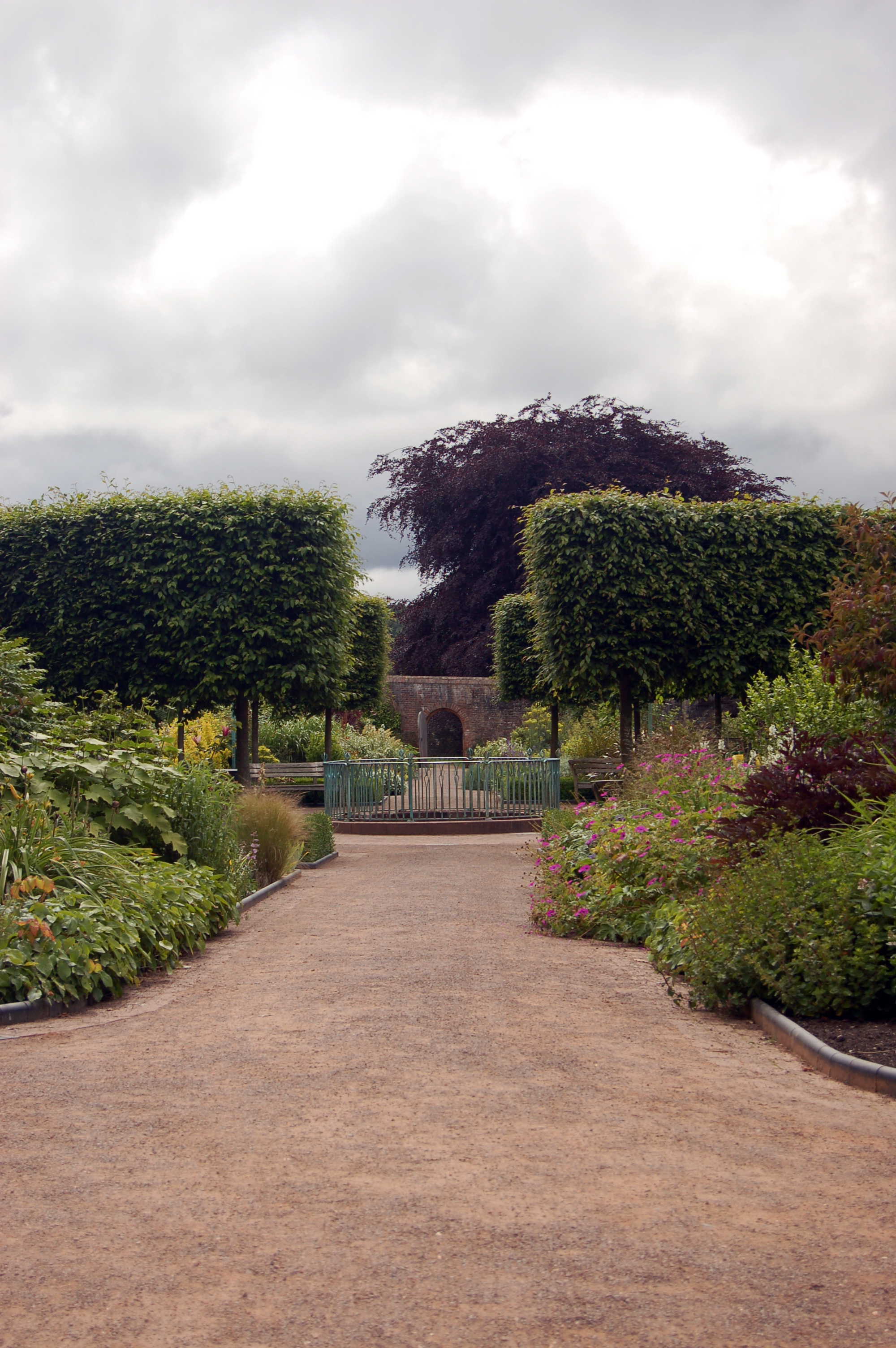 Double Walled Garden @ National Botanic Garden Of Wales